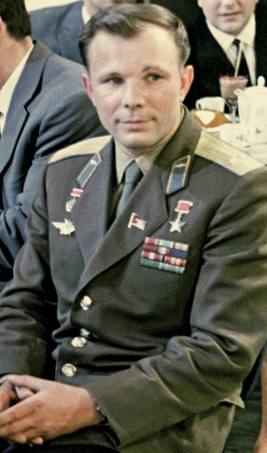 “Gagarin, Tereshkova, Tikhonov and Lyubeznov”. Guests of the Central TV Studio: Yuri Gagarin.